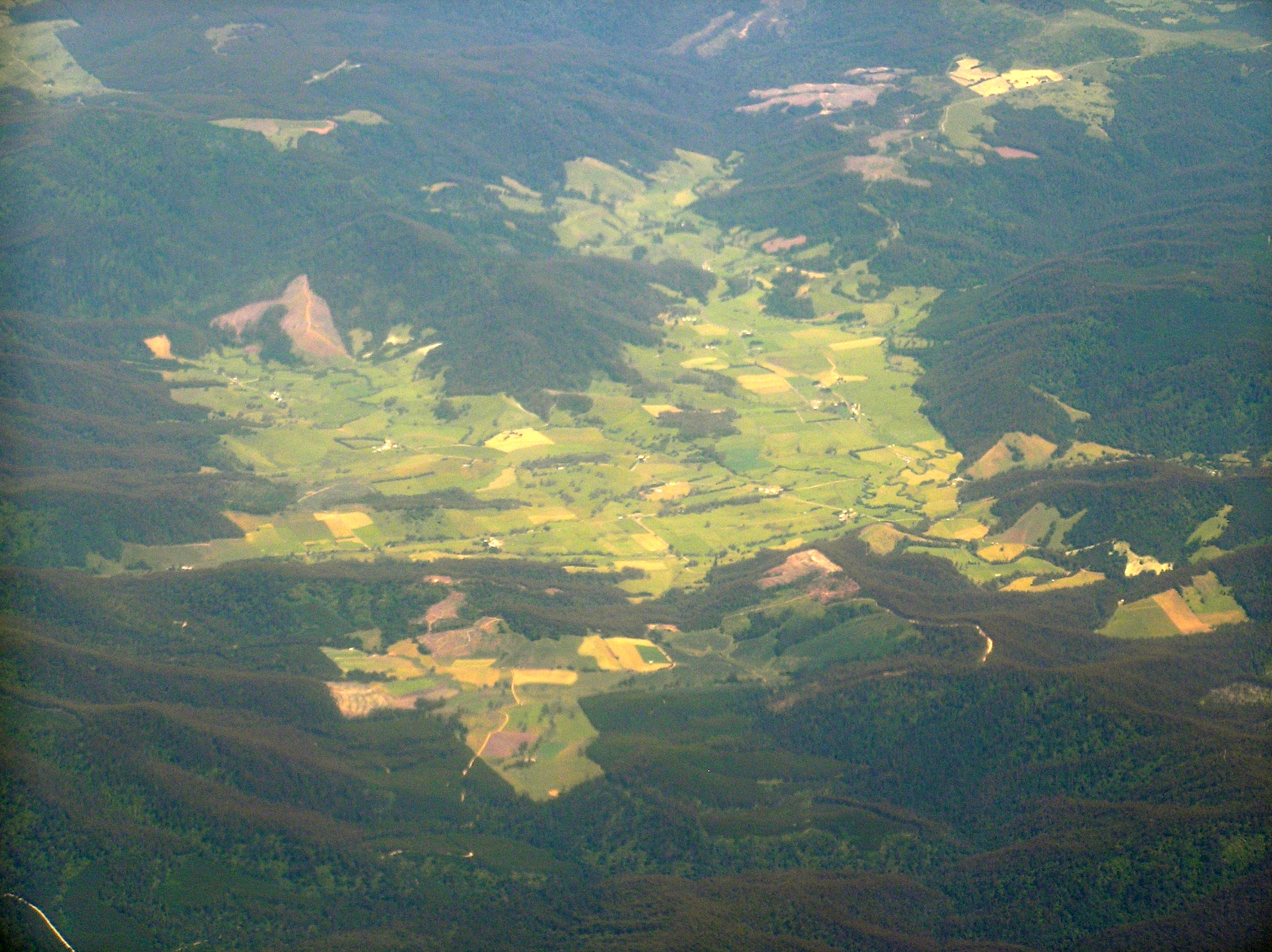 Pyengana, north east Tasmania with surrounding farmland on the Tasman Highway